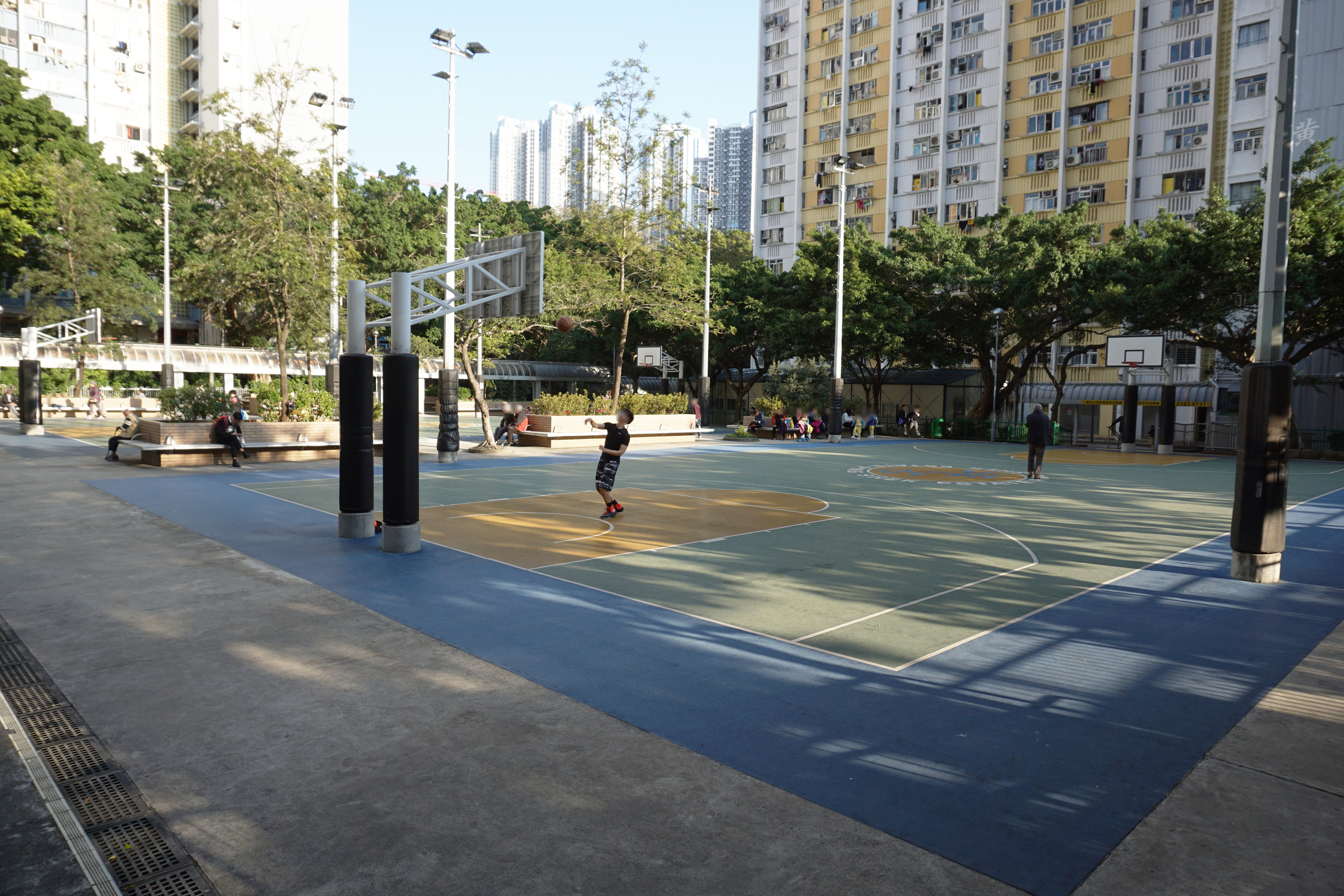 Ping Shek Estate in Choi Hung, Hong Kong.